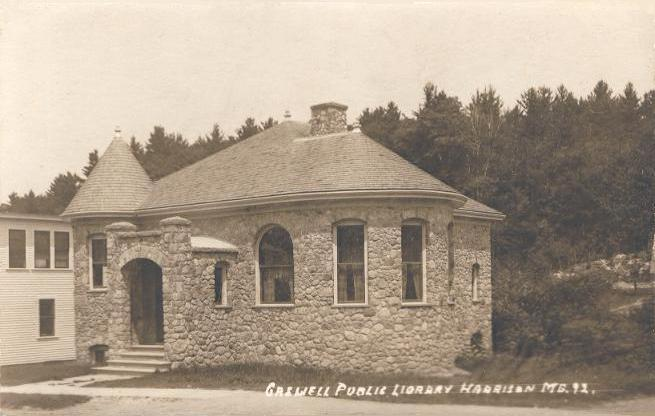 Caswell Public Library, Harrison, Maine. Designed by John H. Proctor, the building was completed in 1908. It was added to the National Register of Historic Places in 2005.